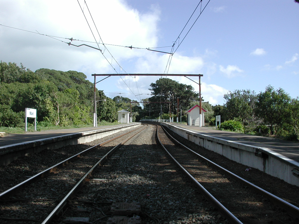 Muri Station train stop (main trunk line, Wellington region rail network) in Pukerua Bay, (New Zealand) looking south. This photo was taken well before the station's closure in April 2011.